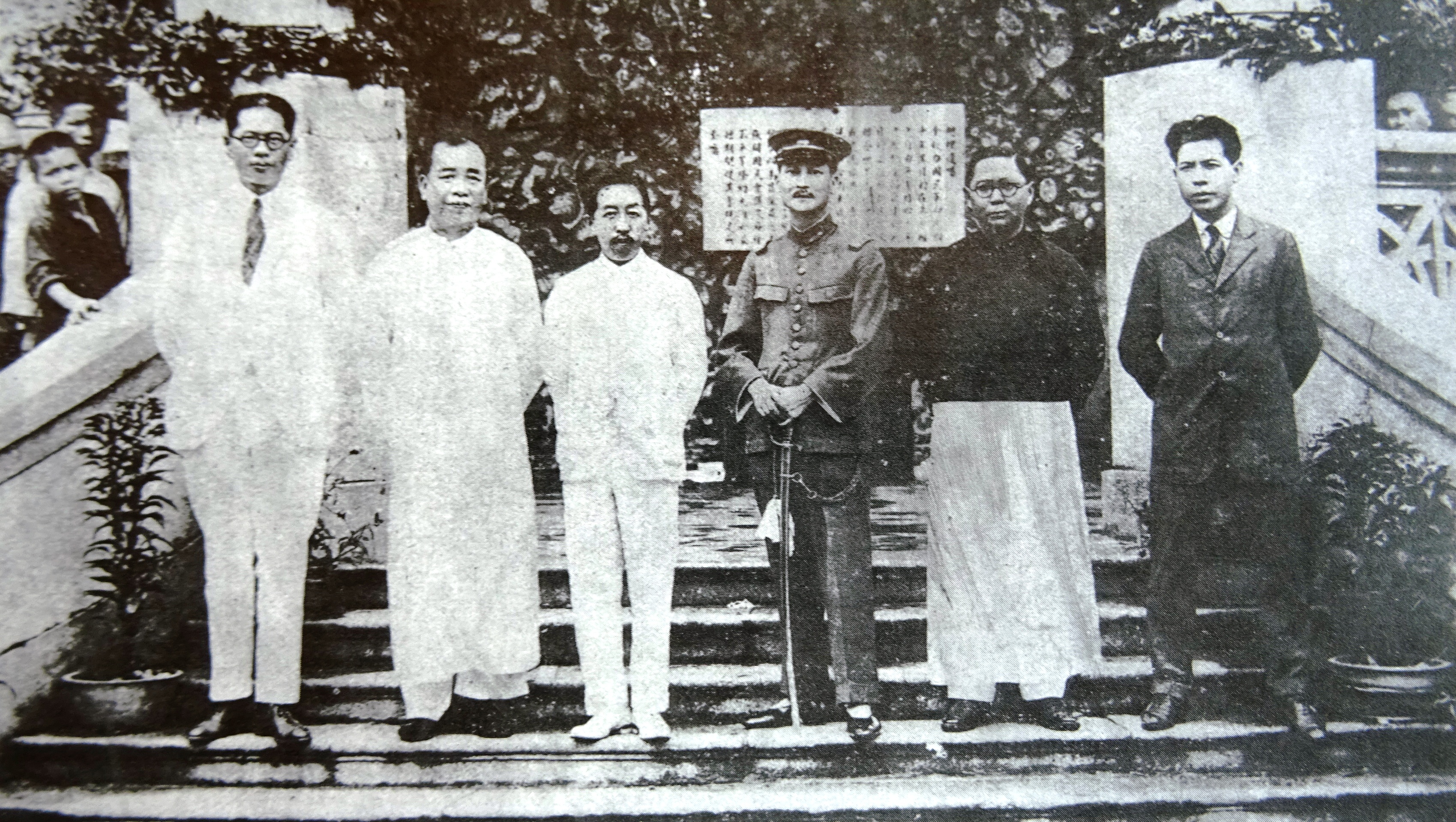 Cabinet of the newly reorganised Kwangtung Provincial Government at the swearing-in ceremony in Central Park, Canton, Kwangtung on 3 July 1925. From left to right: T. V. Soong, Secretary of Commerce; Ku Ying-fen, Secretary of Home Affairs; Liao Chung-k'ai, Financial Secretary; Hsu Chung-chi, Chairman of Provincial Council cum Military Secretary; Sun Fo, Secretary of Construction; and Chen Kung-po, Secretary of Agriculture and Labour. 粵語: 1925年7月3號，喺廣州中央公園出席廣東省政府改組成立大會嘅首腦人物，企喺音樂亭石級，左到右係：商務廳長宋子文，民政廳長古應芬，財政廳長廖仲愷，軍事廳長兼省務會議主席許崇智，建設廳長孫科，農工廳長陳公博。